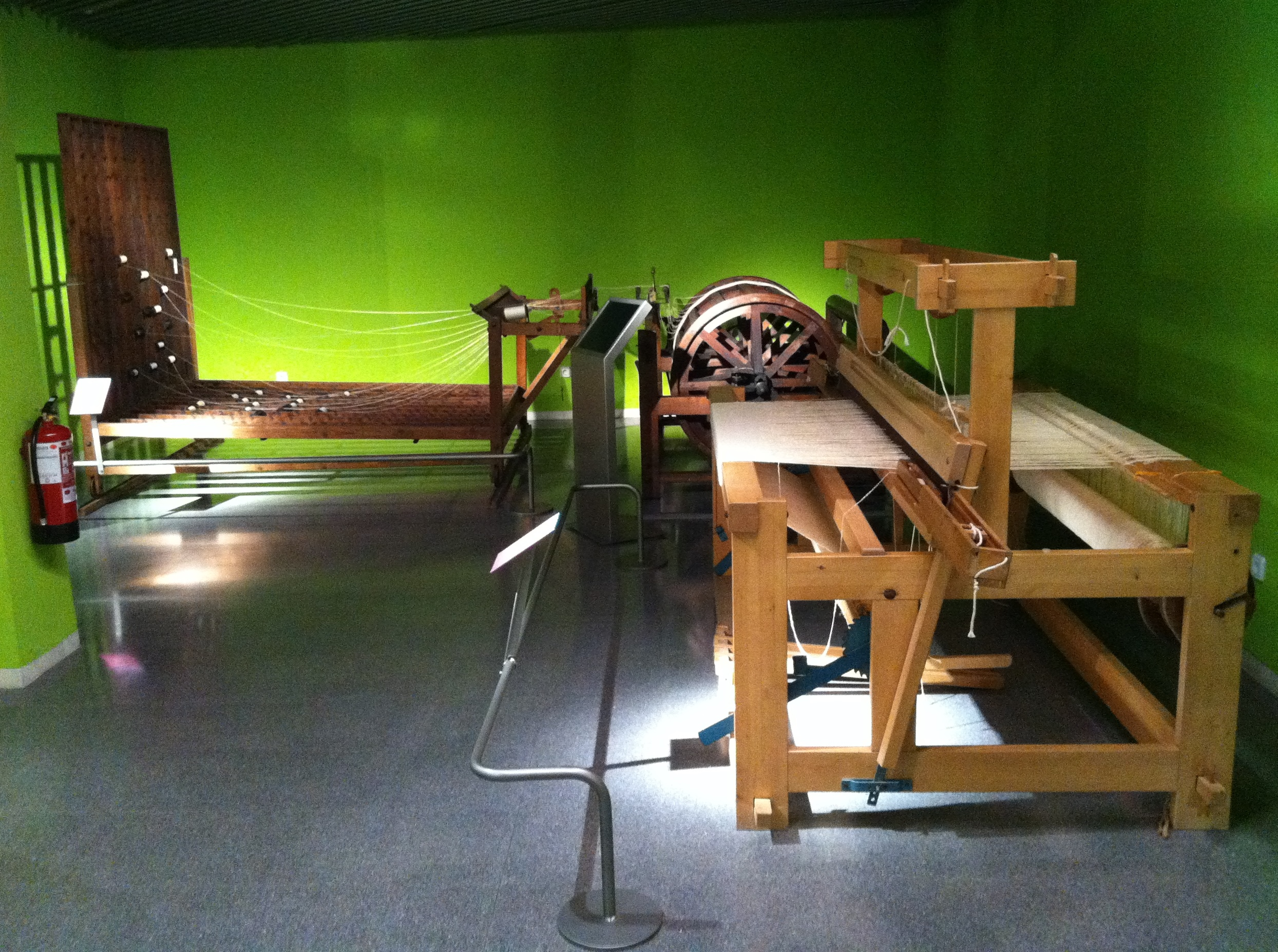 Documentation Center and Textile Museum of Terrassa